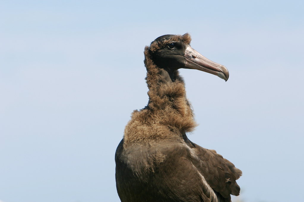 A juvenile Short-tailed Albatross on Mukojima Island, Japan.